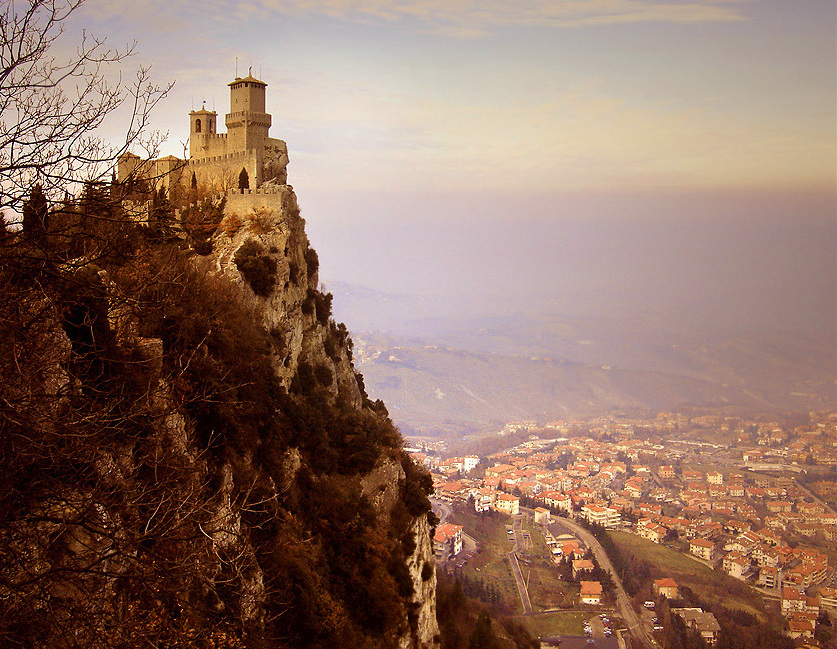 San Marino, seeing Guaita fortress and part of the city (view from above Monte Titano).